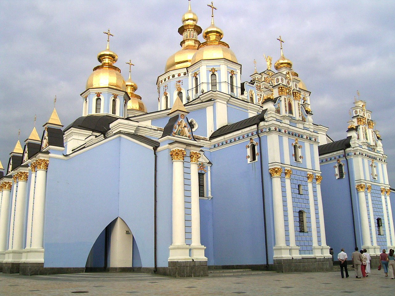 Description: St.Michael's Golden-domed Cathedral (Св. Михайловский Златоверхий Собор) in Kiev Author: Alexander Noskin Date: 8-12-2005